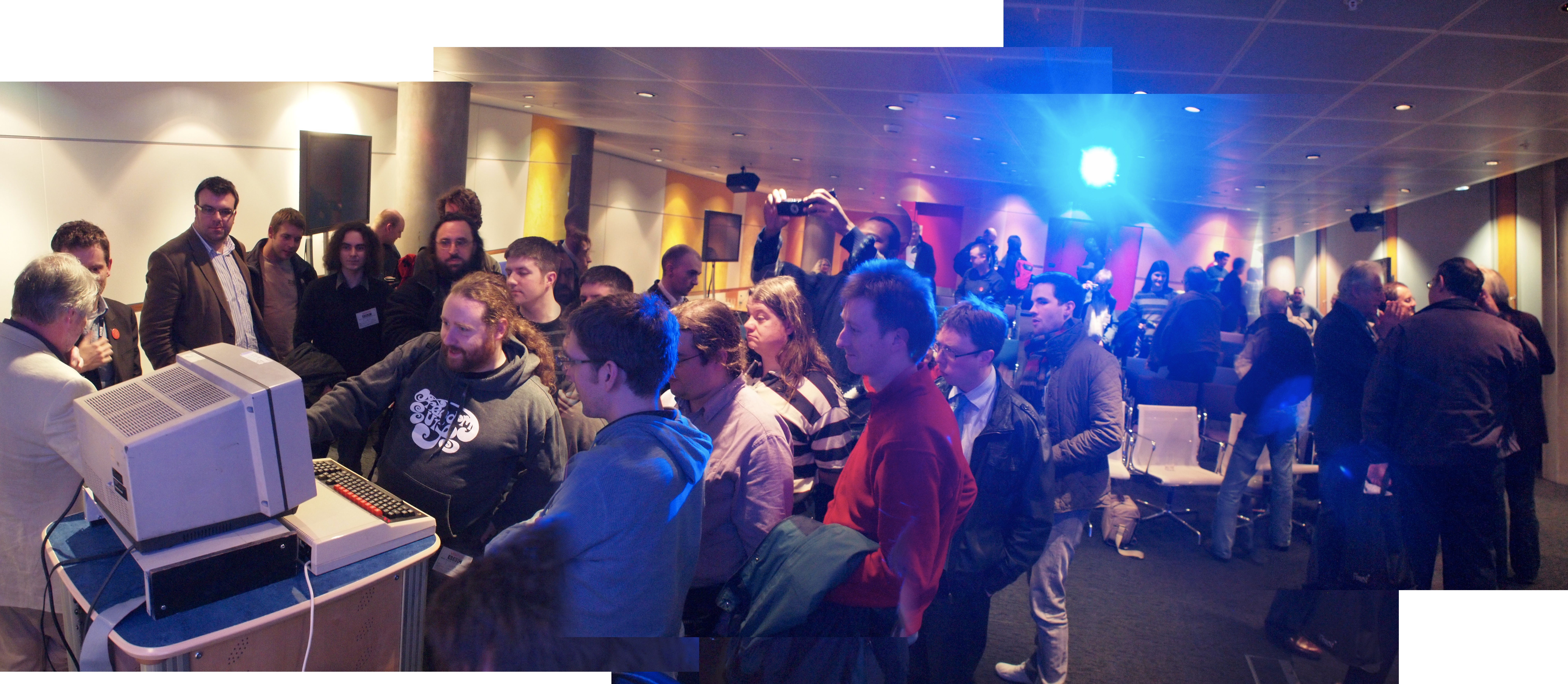 Genuine excitement to see The Domesday Machine in action.